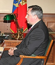 BOCHAROV RUCHEI, SOCHI. Russian Permanent Envoy to the North Atlantic Treaty Organisation (NATO) Dmitry Rogozin.